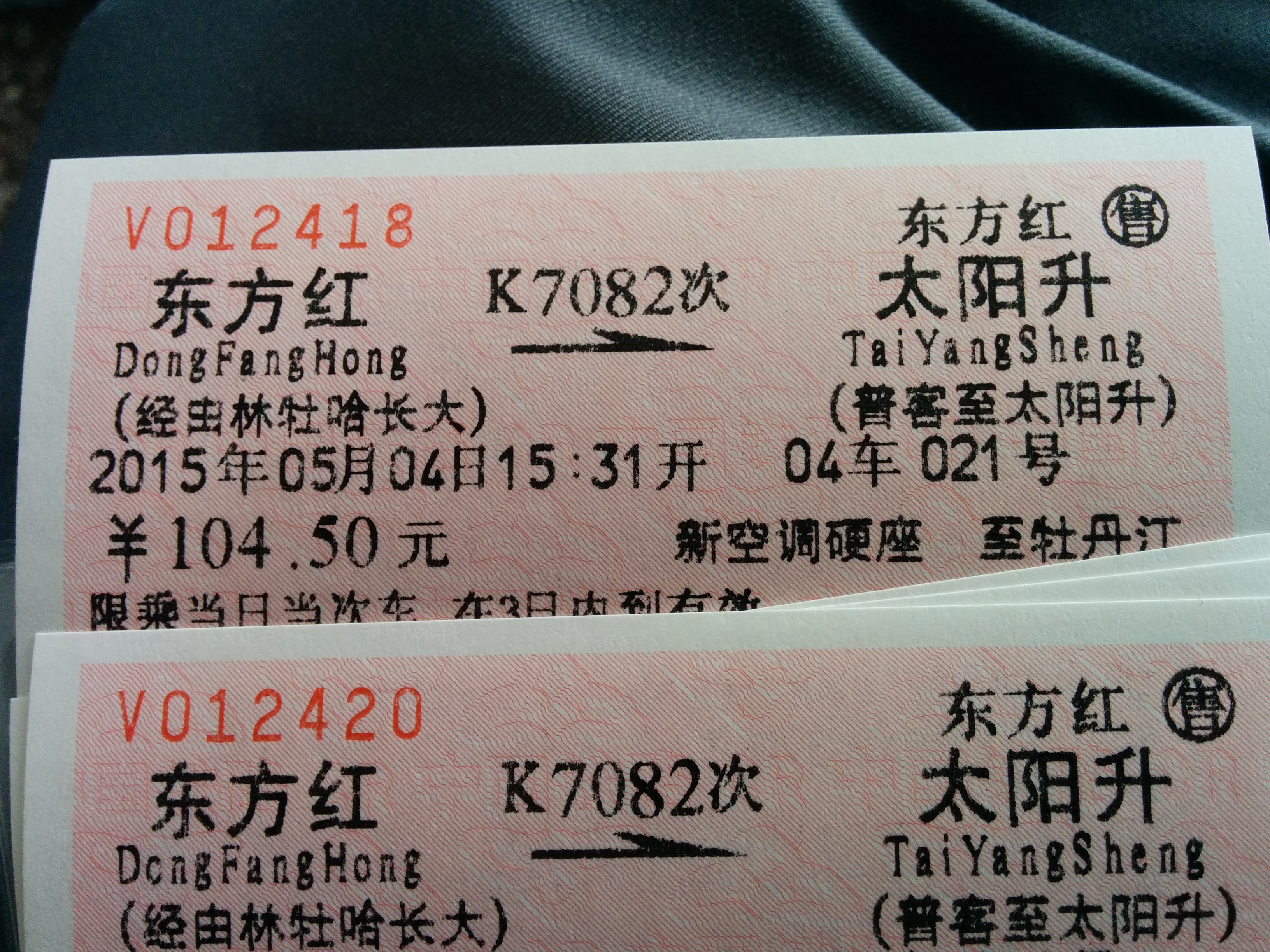 Train ticket from Dongfanghong Railway Station to Taiyangsheng Railway Station